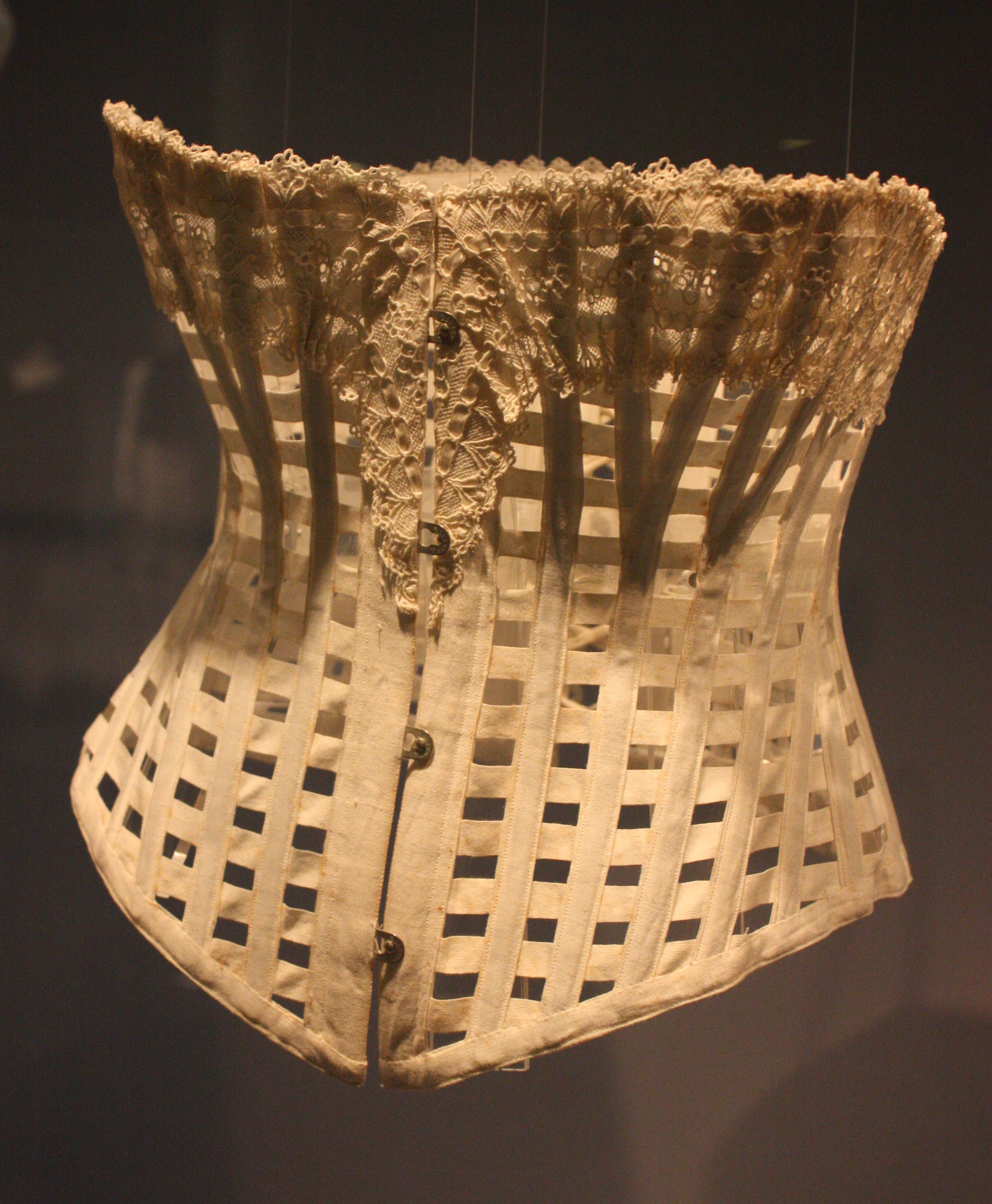 Corset 1890-1900 Britain Whalebone and cotton, with steel busk and back supports By the late 19th century the harmful effects of wearing corsets were widely known. Manufacturers attempted to modify corset construction and produce more comfortable designs. This \'ventilated\' corset was suitable for sports and summer wear. The spaces in between the whalebone and cotton tapes allowed air to circulate and perspiration to evaporate. Given by Miss S.P. Emery Collection ID: T.184-1962 This photo was taken as part of Britain Loves Wikipedia in February 2010 by Valerie McGlinchey.